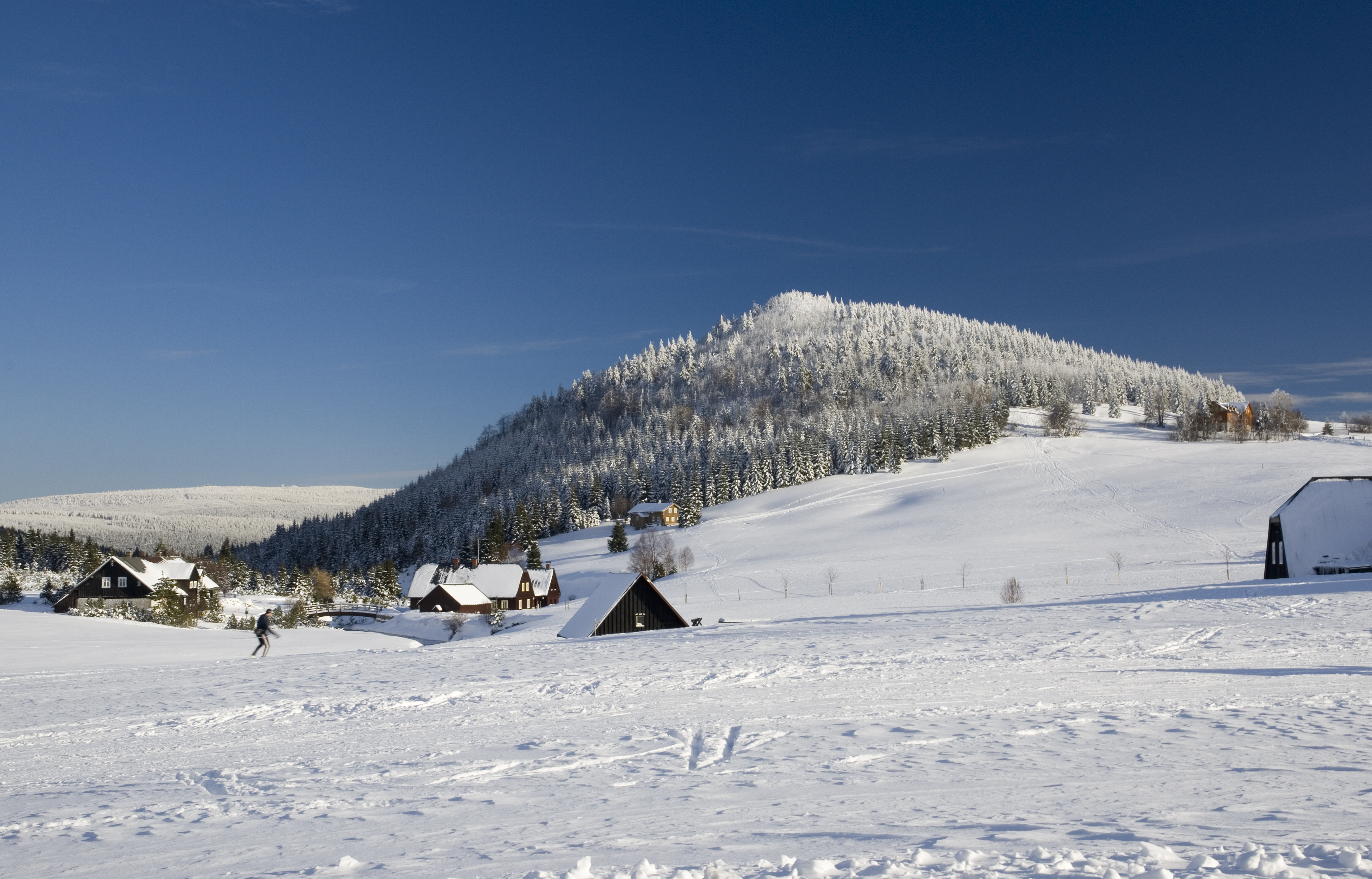 Bukovec mountain (1005 m) above the village Jizerka in the Jizera Mountains.